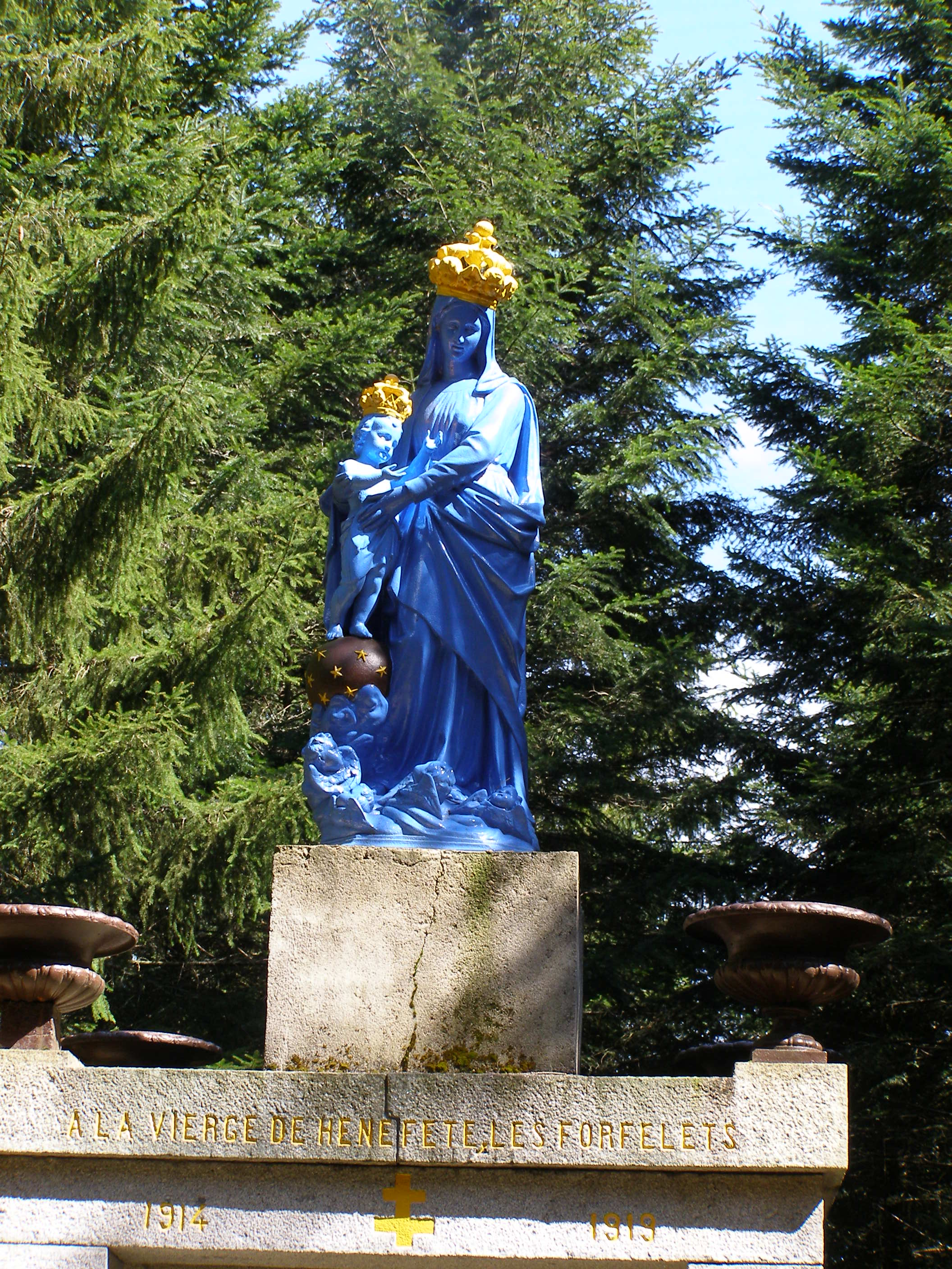 The Virgin Blue, patron saint of forfelets.